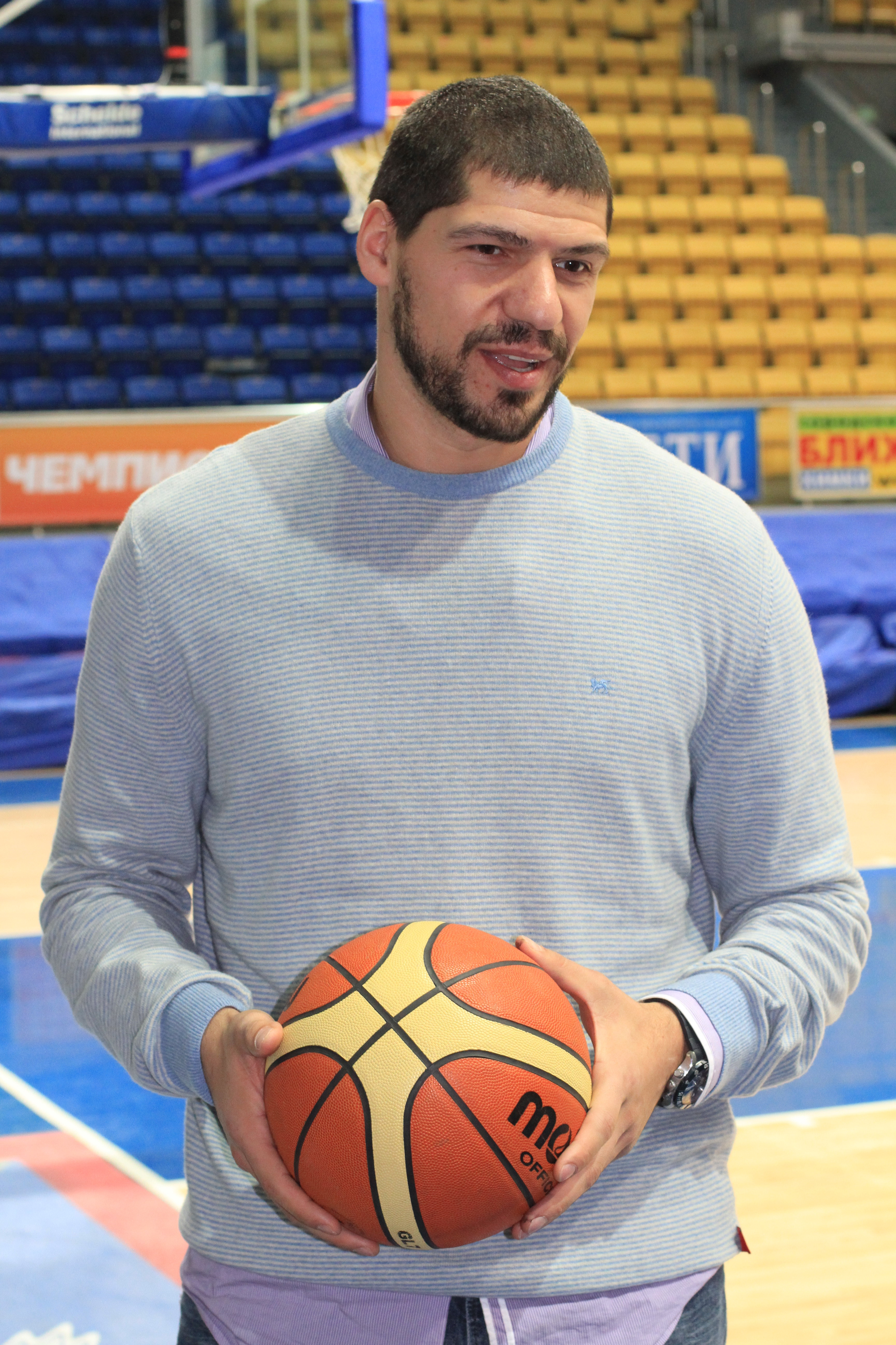 Lazarous Papadopoulos is a new BC Khimki player. The process of presentation and first interview